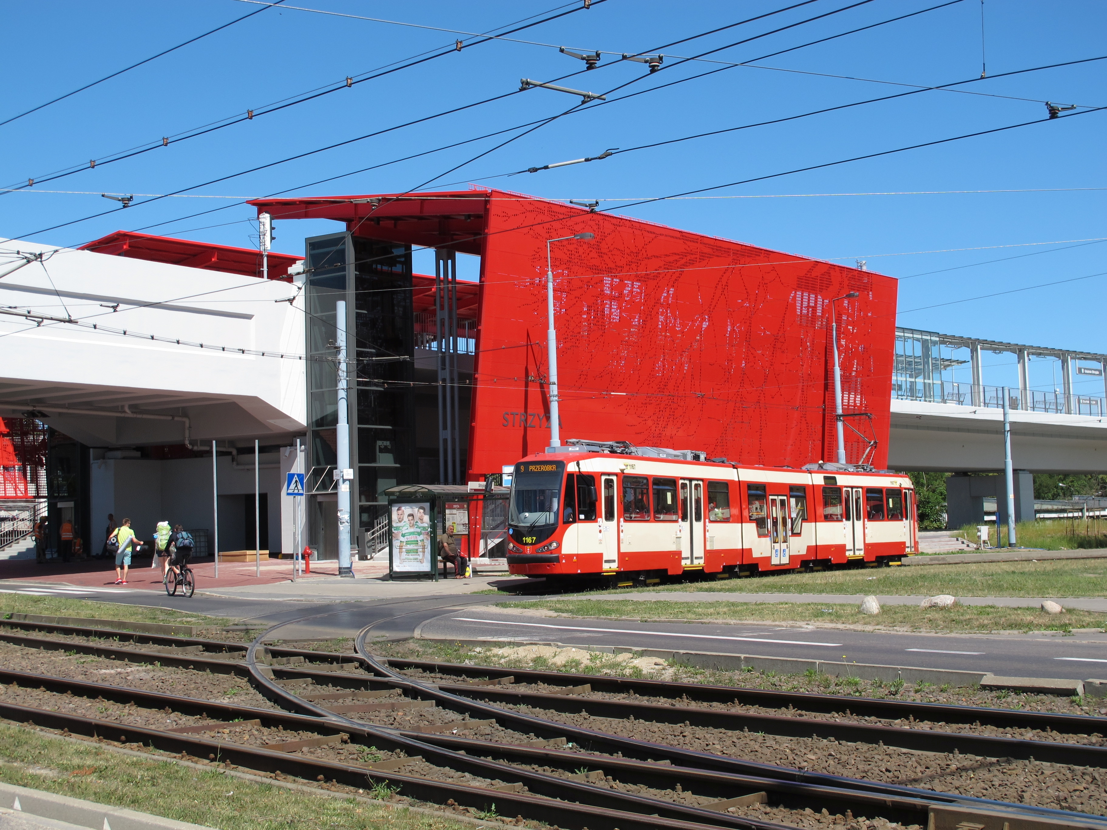 Gdańsk - Pomeranian Metropolitan Railway stop Gdańsk Strzyża and N8C (Moderus Beta MF 01) tram #1167 on line No. 9 at Strzyża terminus